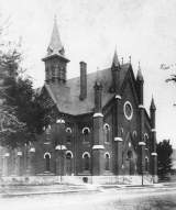 "The Brick Church" of the Plymouth Congregational Church of Lawrence, Kansas after its completion in 1870.